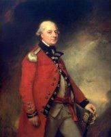 Portrait of George Townshend, 1st Marquess Townshend (1724-1807). The port city Port Townsend was named after him